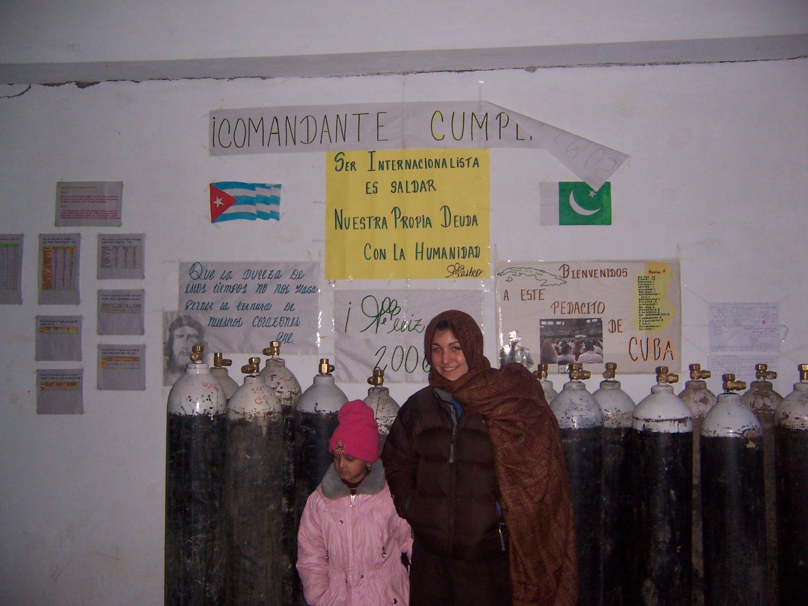 2005 Earthquake Relief Rawalakot. Cuban Field Hospital